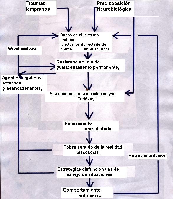 Flowchart of the neurobehavioural model of BPD formation.(spanish)